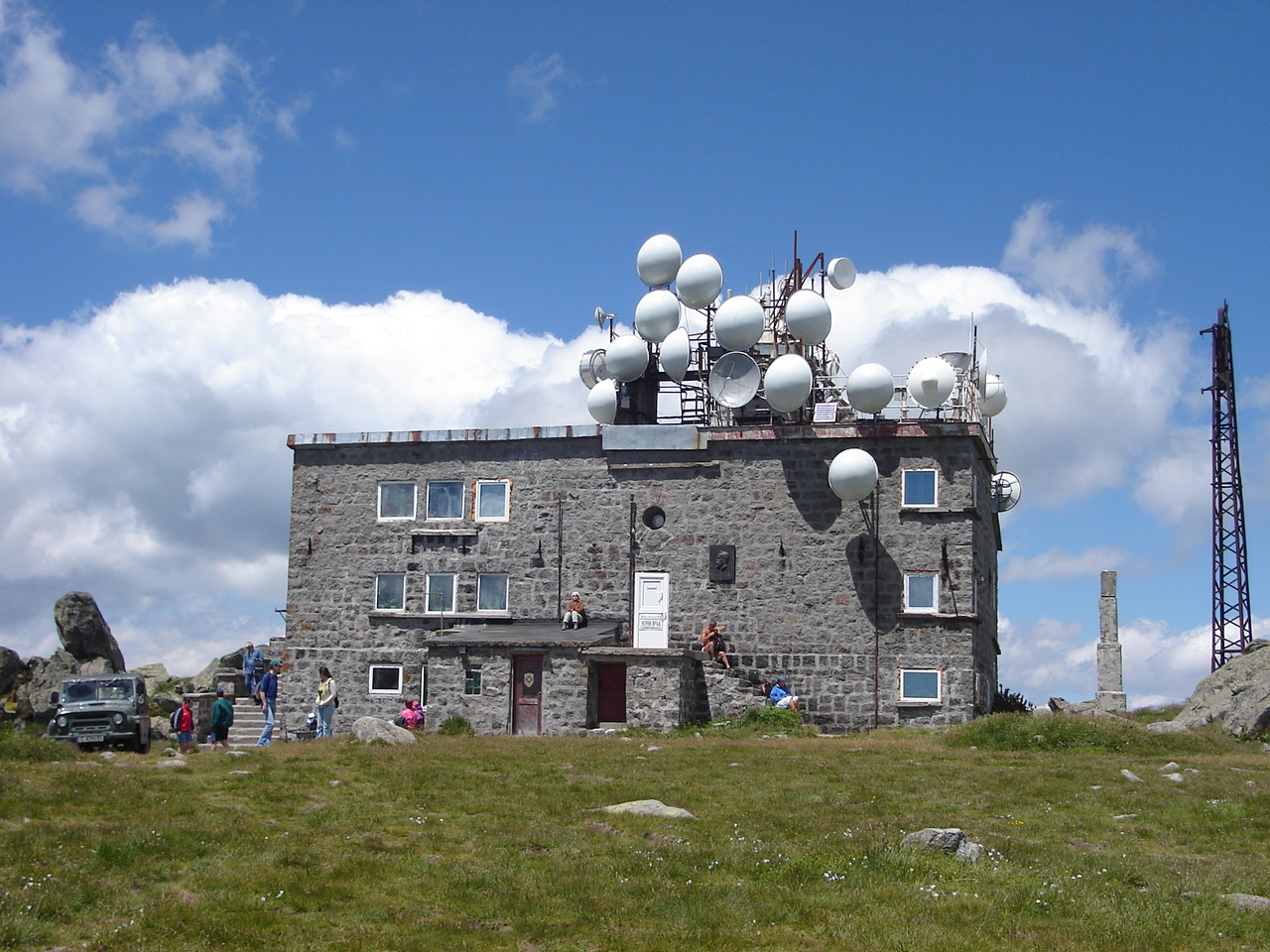 Cherni vrah, Vitosha mountain Bulgaria